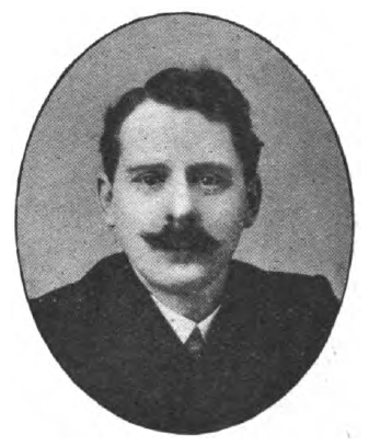 Isaac Mitchell, secretary of the General Federation of Trade Unions and member of London County Council, pictured in the mid-1900s